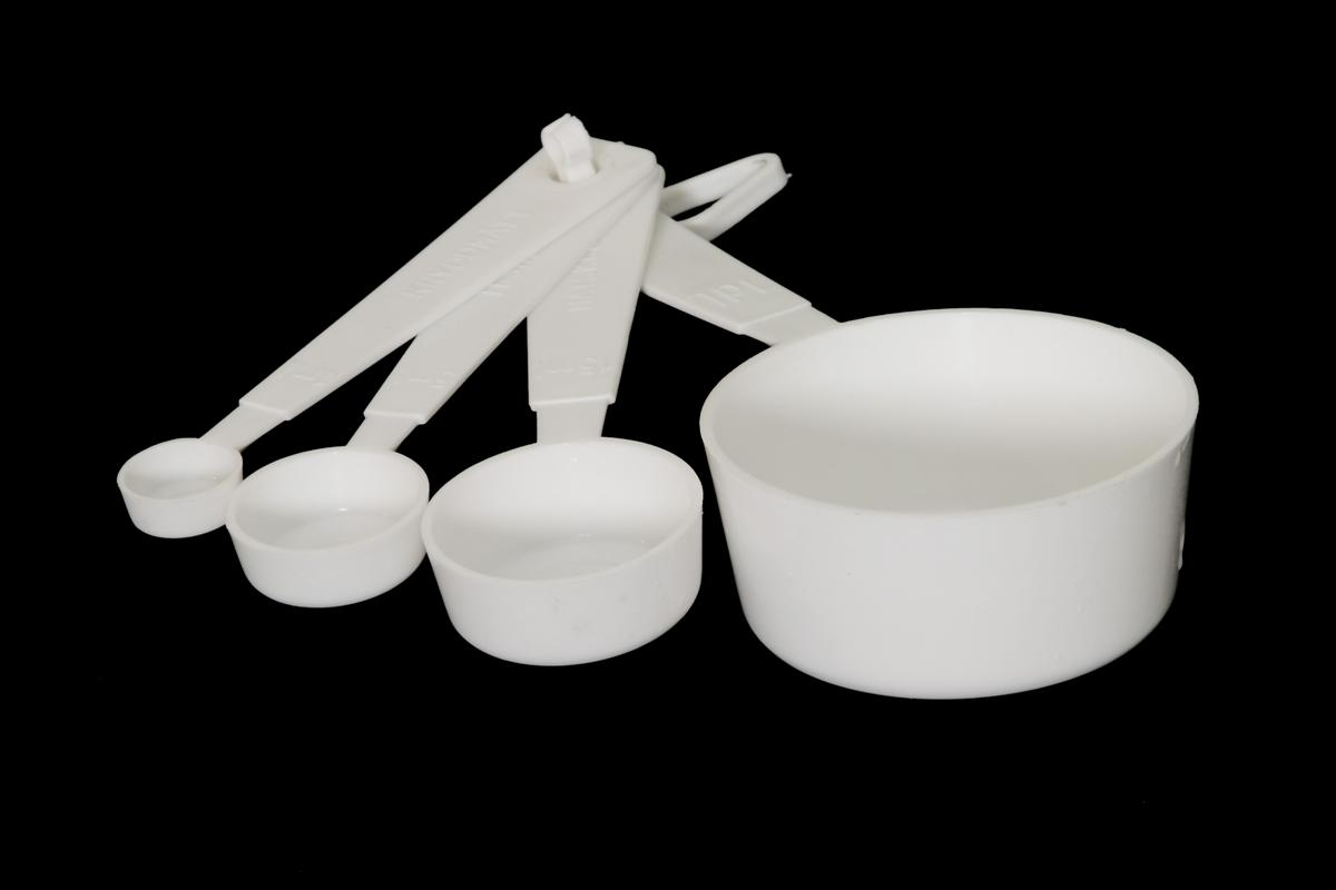 Measuring cups